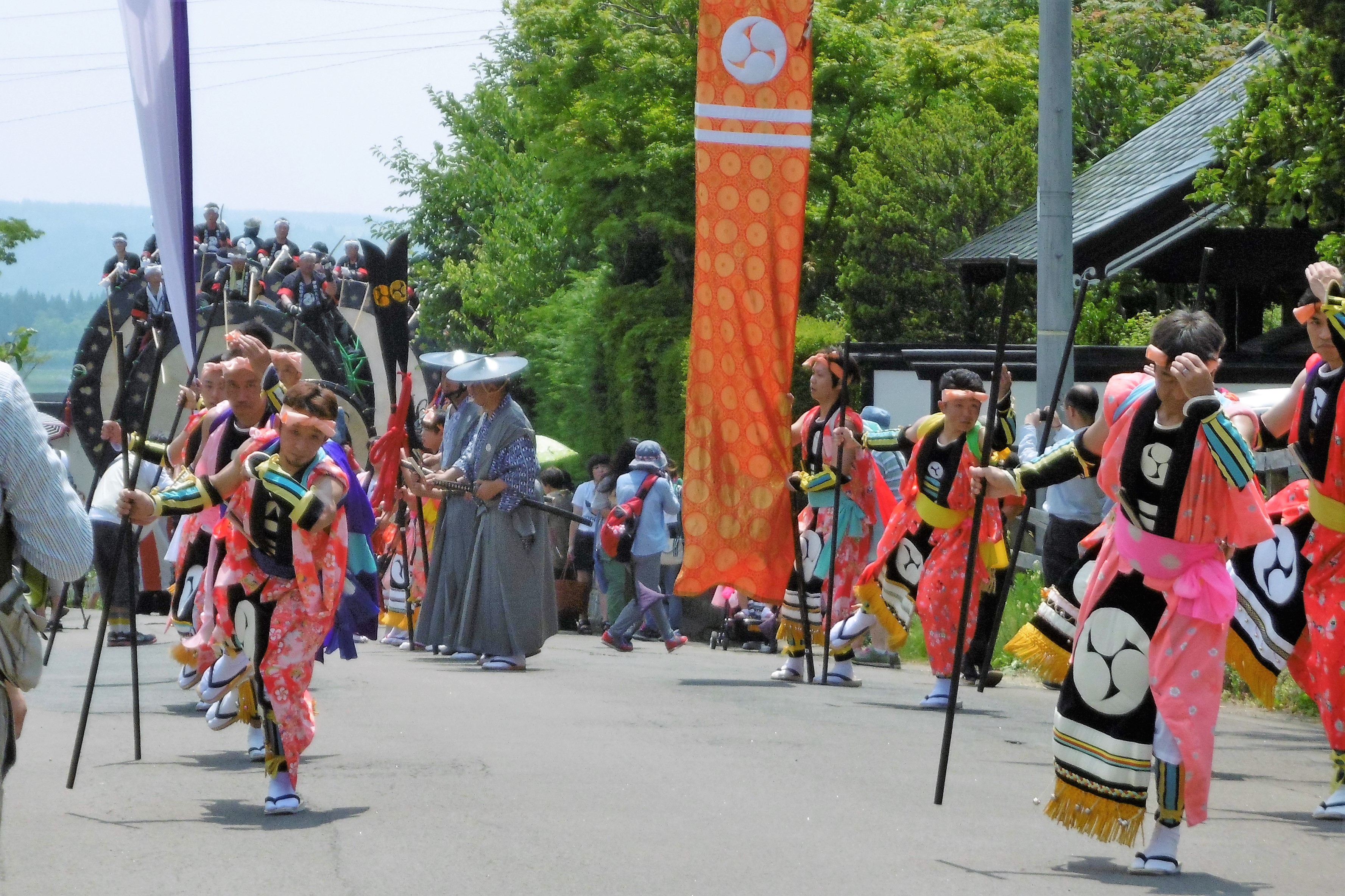 Tsuzureko shrine festival in Kitaakita City, Akita Prefecture, Japan